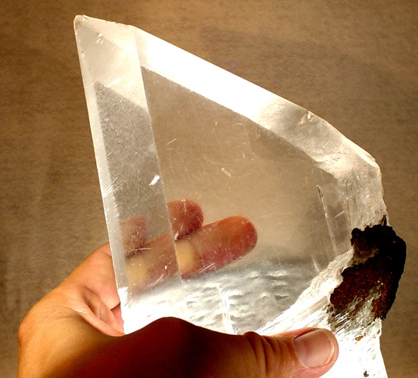 Gypsum Locality: Naica, Municipio de Saucillo, Chihuahua, Mexico (Locality at ) Six centimeters thick, but so water-clear you can see fingerprints right through it! Though gypsum crystals are not uncommon, sharp, clear whoppers such as this are quite desirable, and just plain visually striking! It weighs about 4 pounds so it is not dinky by any stretch. 25 x 11.5 x 5.8 cm